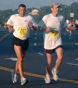 Blind Captain Iván Castro participating in the Army Ten-Miler, guided by Major Phil Young.